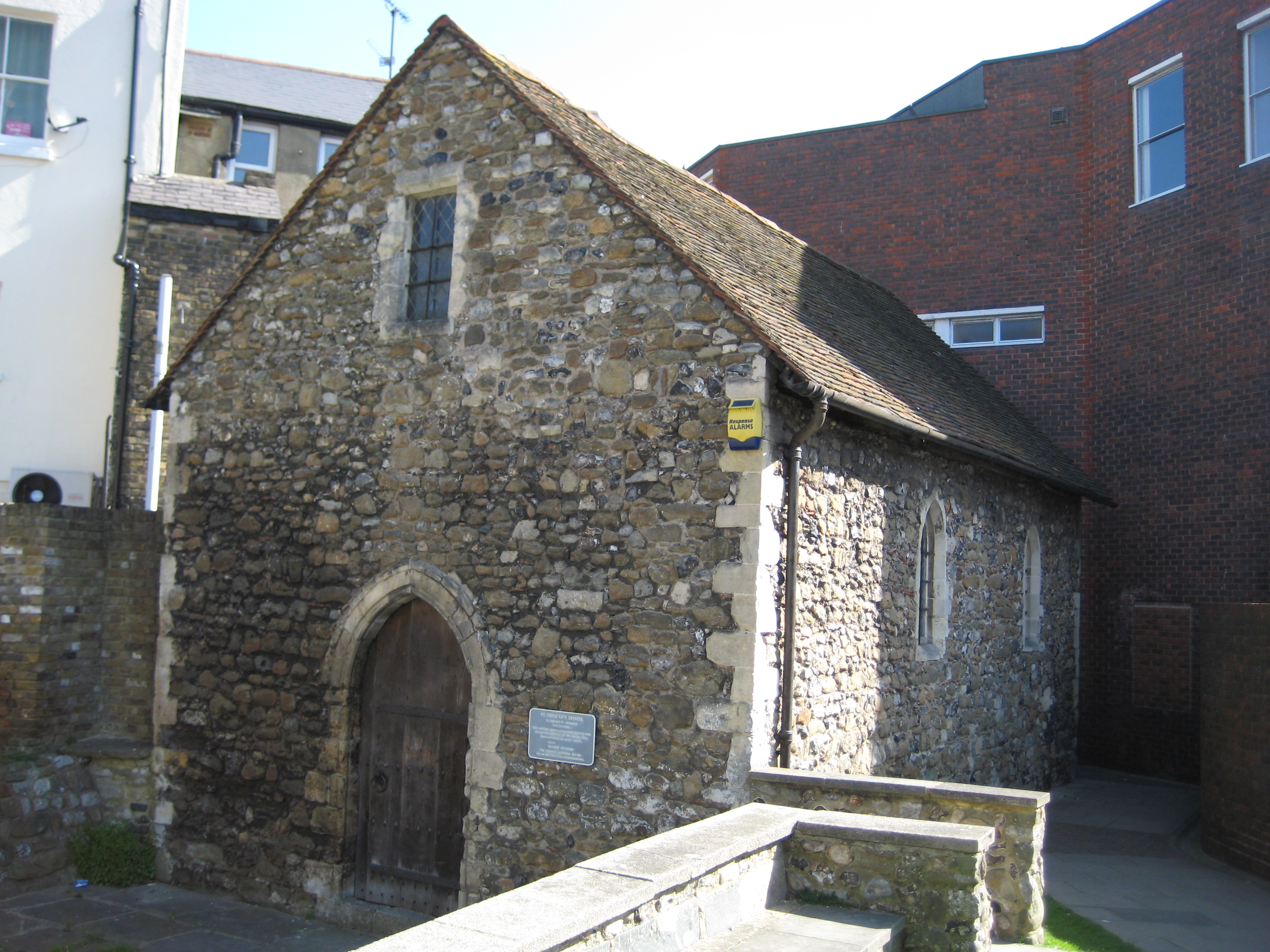 Saint Edmund's Chapel Dover